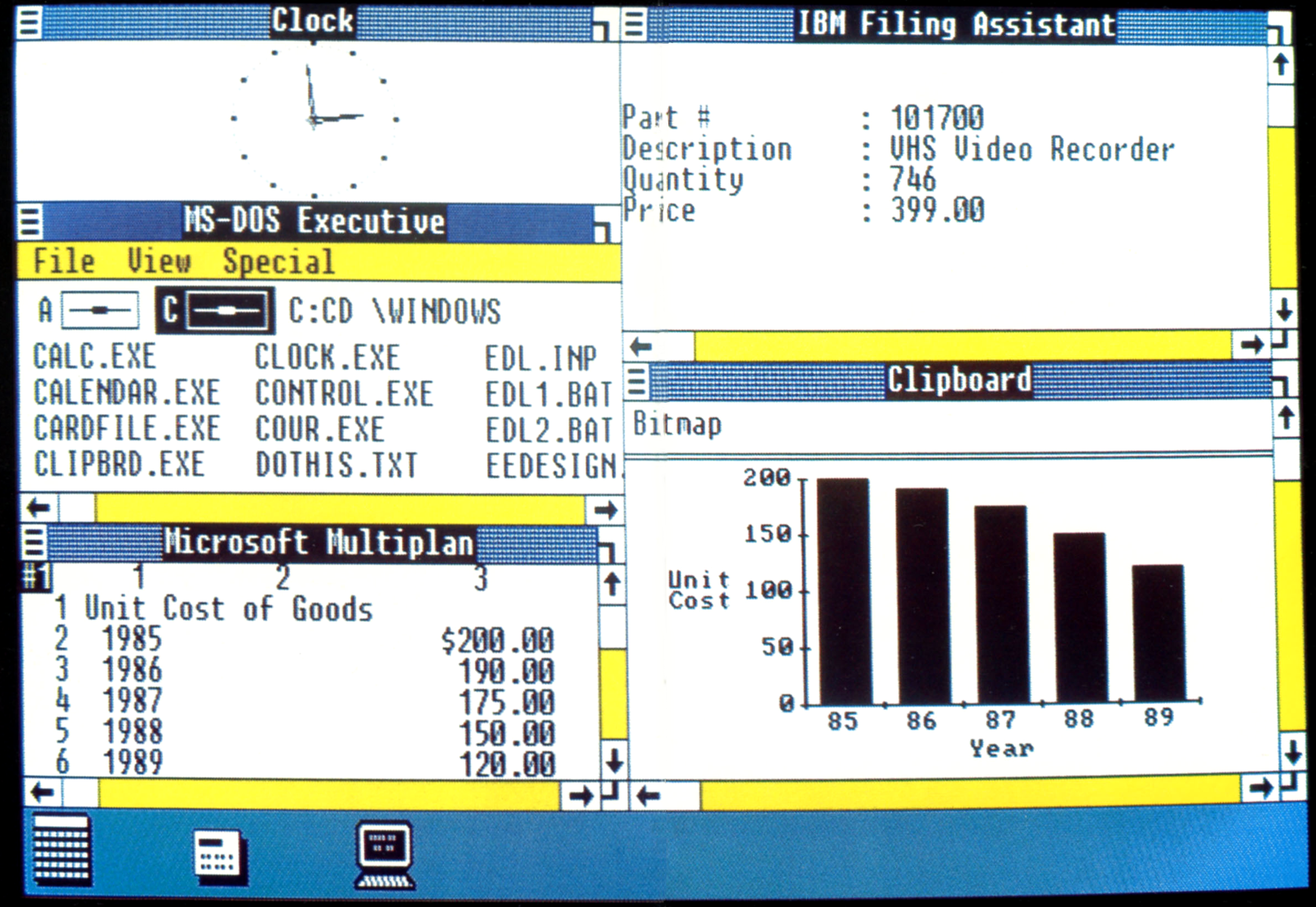 Microsoft Windows 1.0 screenshot